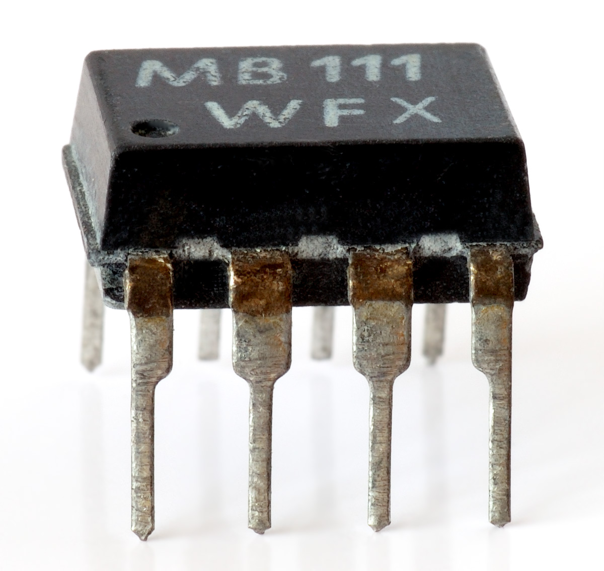 This image shows an electrical opto-isolator (also known as optocoupler or optical coupler). It is part number "MB 111", manufactured by RFT ("Rundfunk- und Fernmelde-Technik"), and contains an infrared LED and silicon photodiode with an integrated amplifier stage.